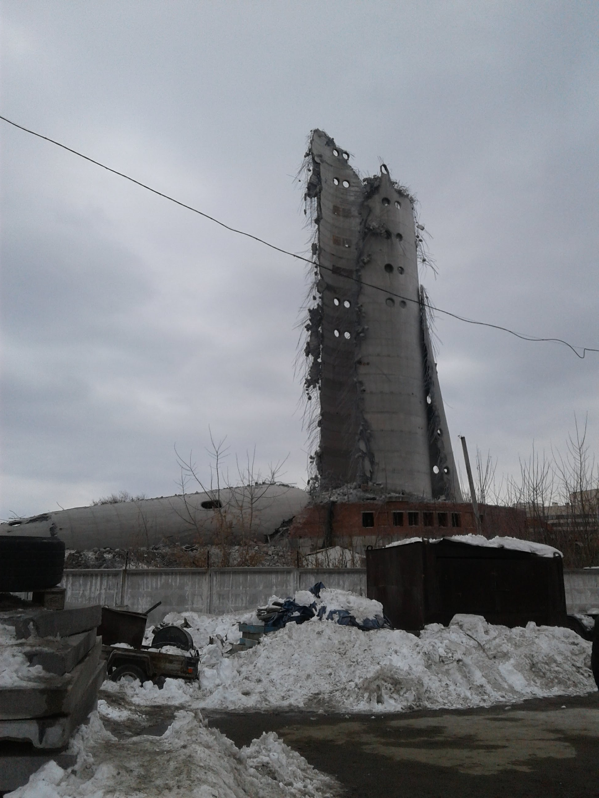 Destroyed TV Tower (Yekaterinburg)